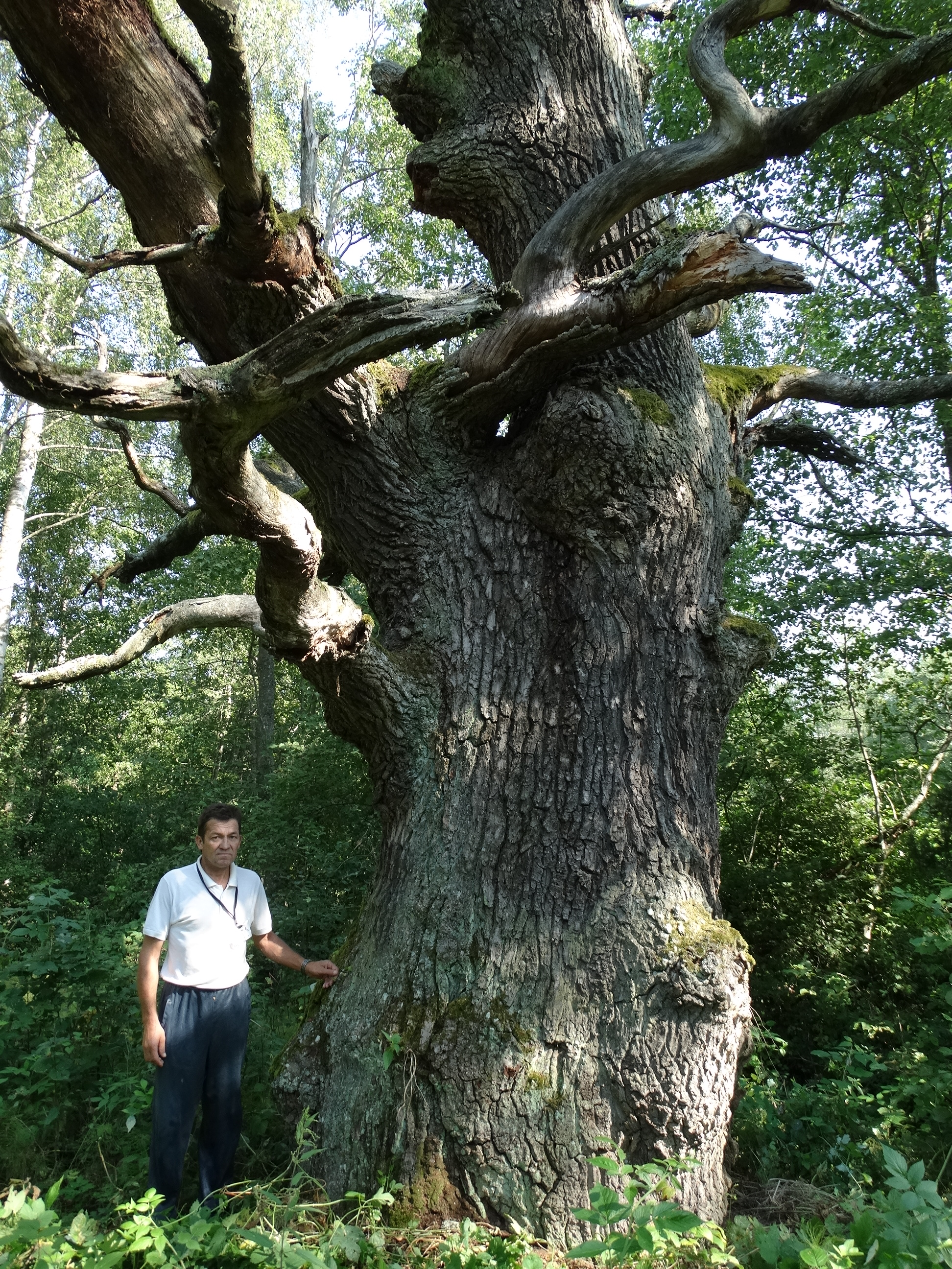 Varius Oak, Anykščiai District, Lithuania